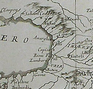 a detail from the map by Antonio Zatta, depicting west Georgia - principality of Guria and it's major town Batumi